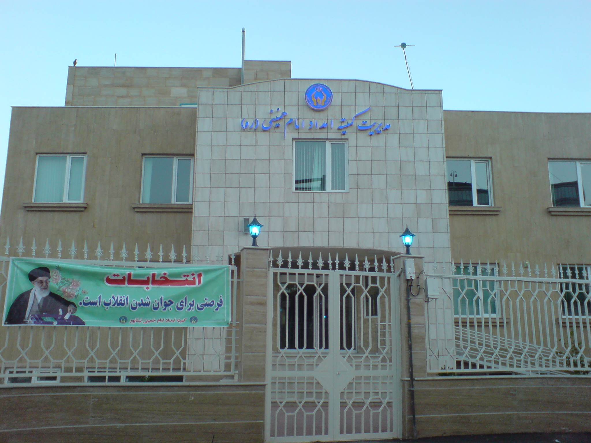 IKRF Nishapur